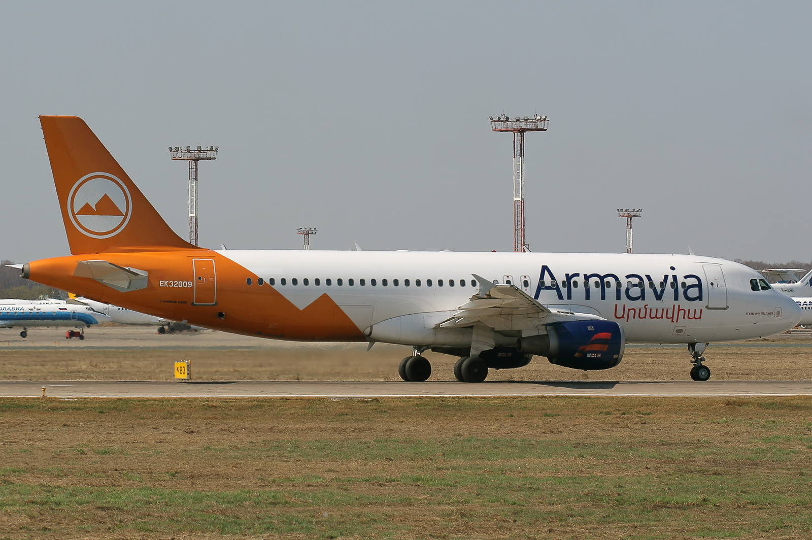 Armavia Airbus A320 (EK32009) at Domodedovo Airport. Crashed as Armavia Flight 967